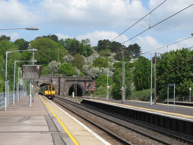 Hadley Wood station Warning to the unwary: there are no pubs in Hadley Wood.